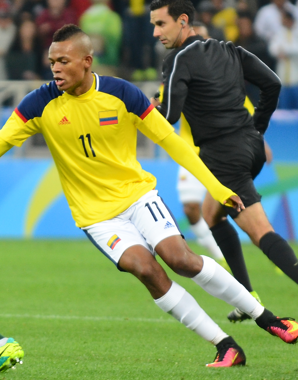 São Paulo - Colômbia vence a Nigéria por 2x0 na Arena Corinthians (Rovena Rosa/Agência Brasil)